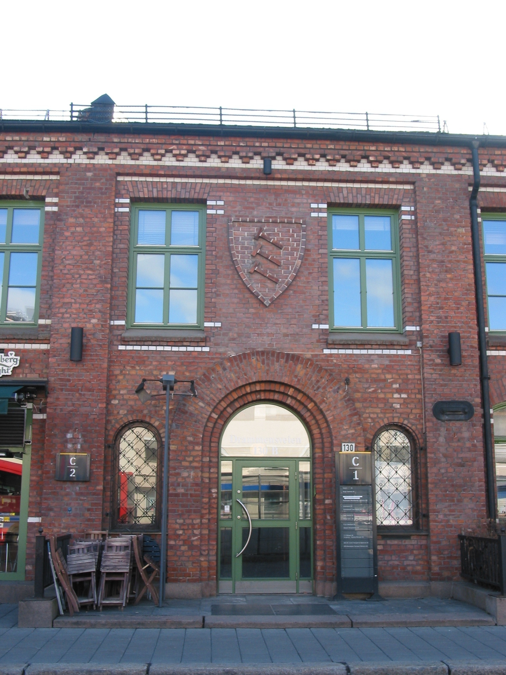 Former factory used by Thune, now used as a restaurant, office or shop (not sure). Located adjacent to Thune station.